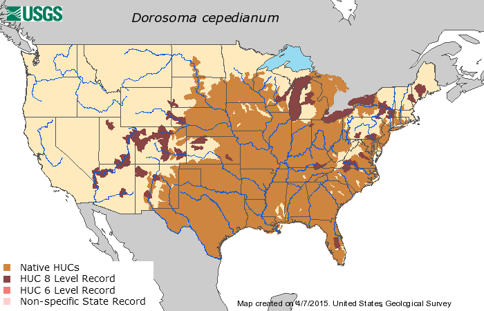 Geographic Range of Dorosoma cepedianum